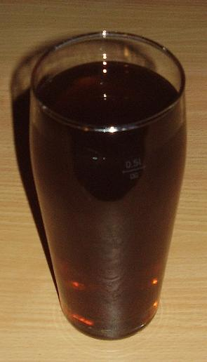 Spezi